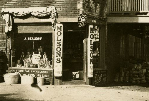 Shop A. Beaudry in Montreal, with advertisement for Molson Brewery